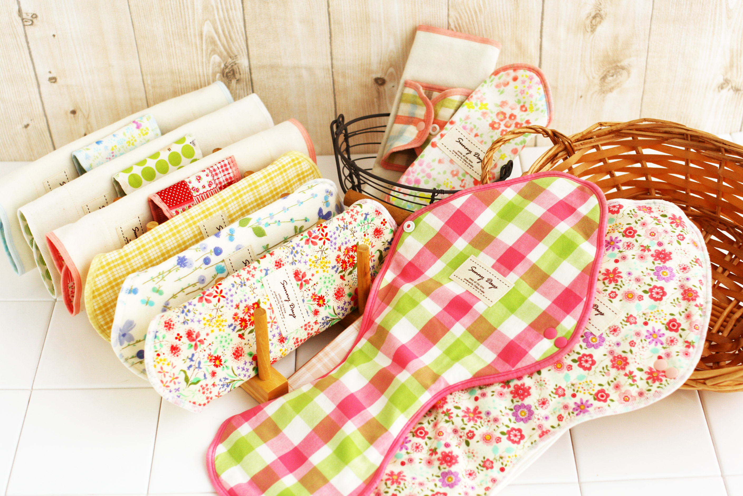 Sanitary towels,Sunny Days(UP SIDE) アップサイド布ナプキン